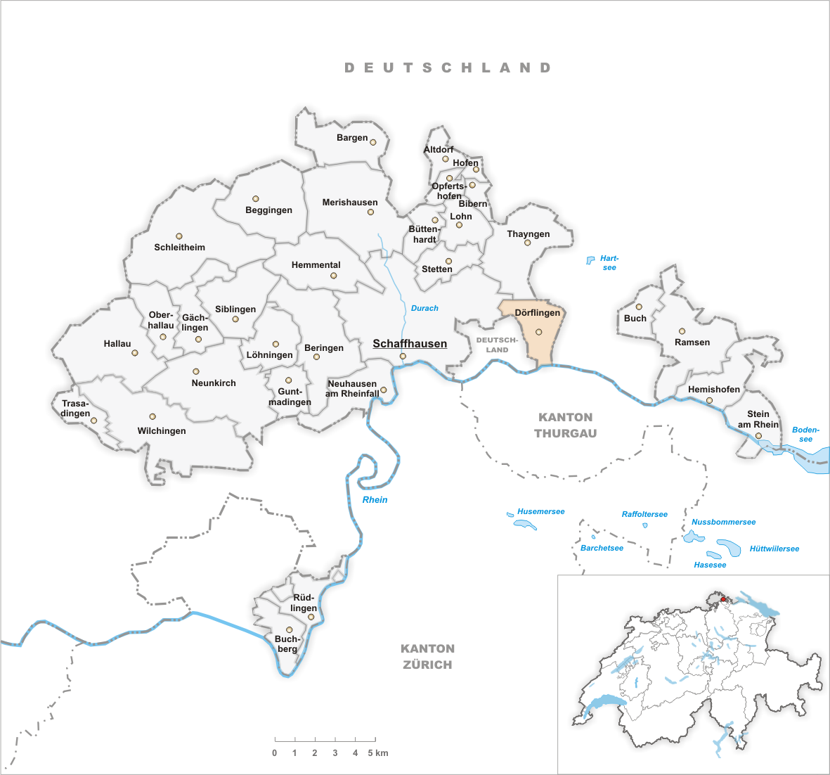 Municipality Dörflingen